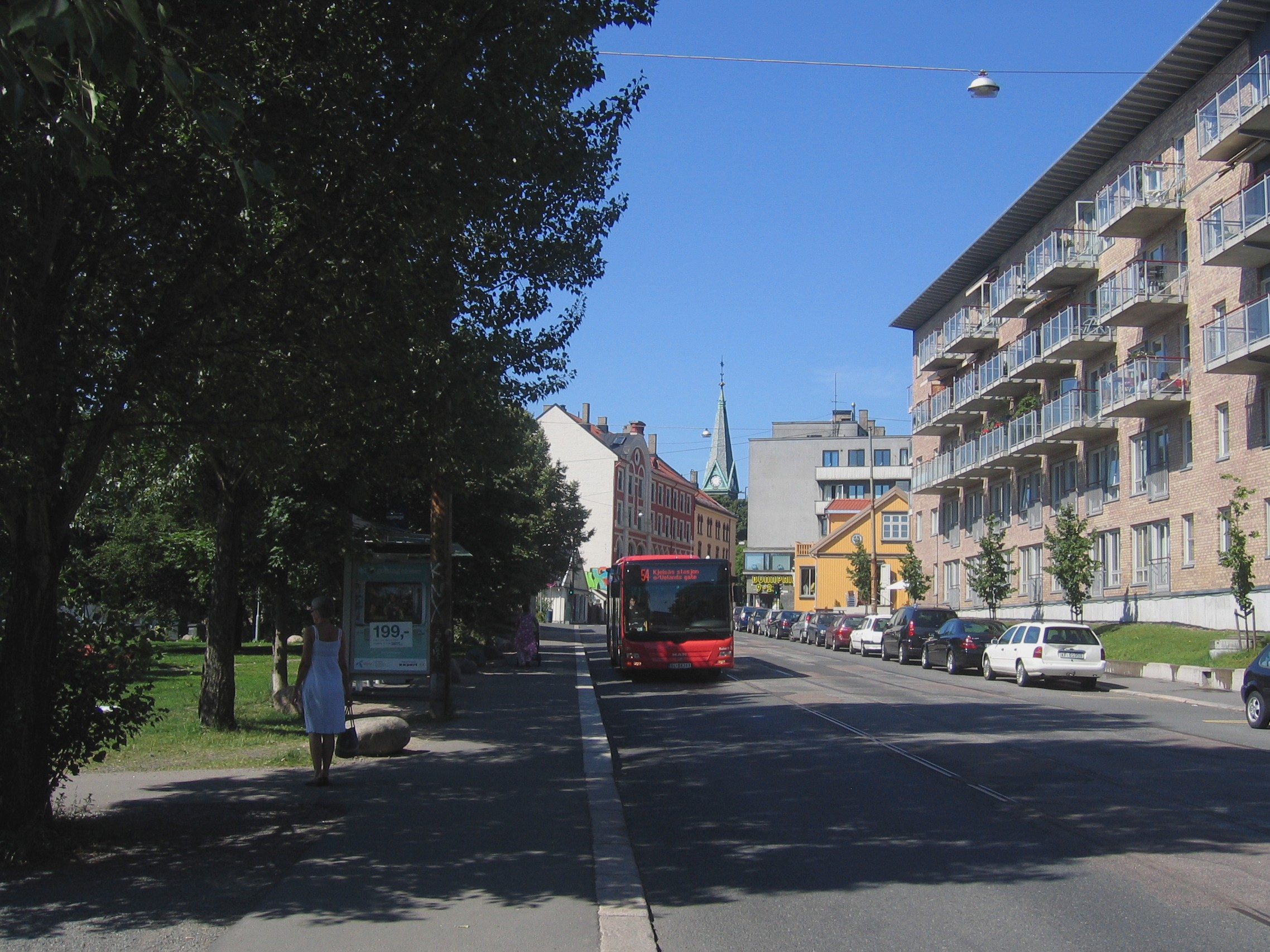 Arendalsgata, a street in Oslo.